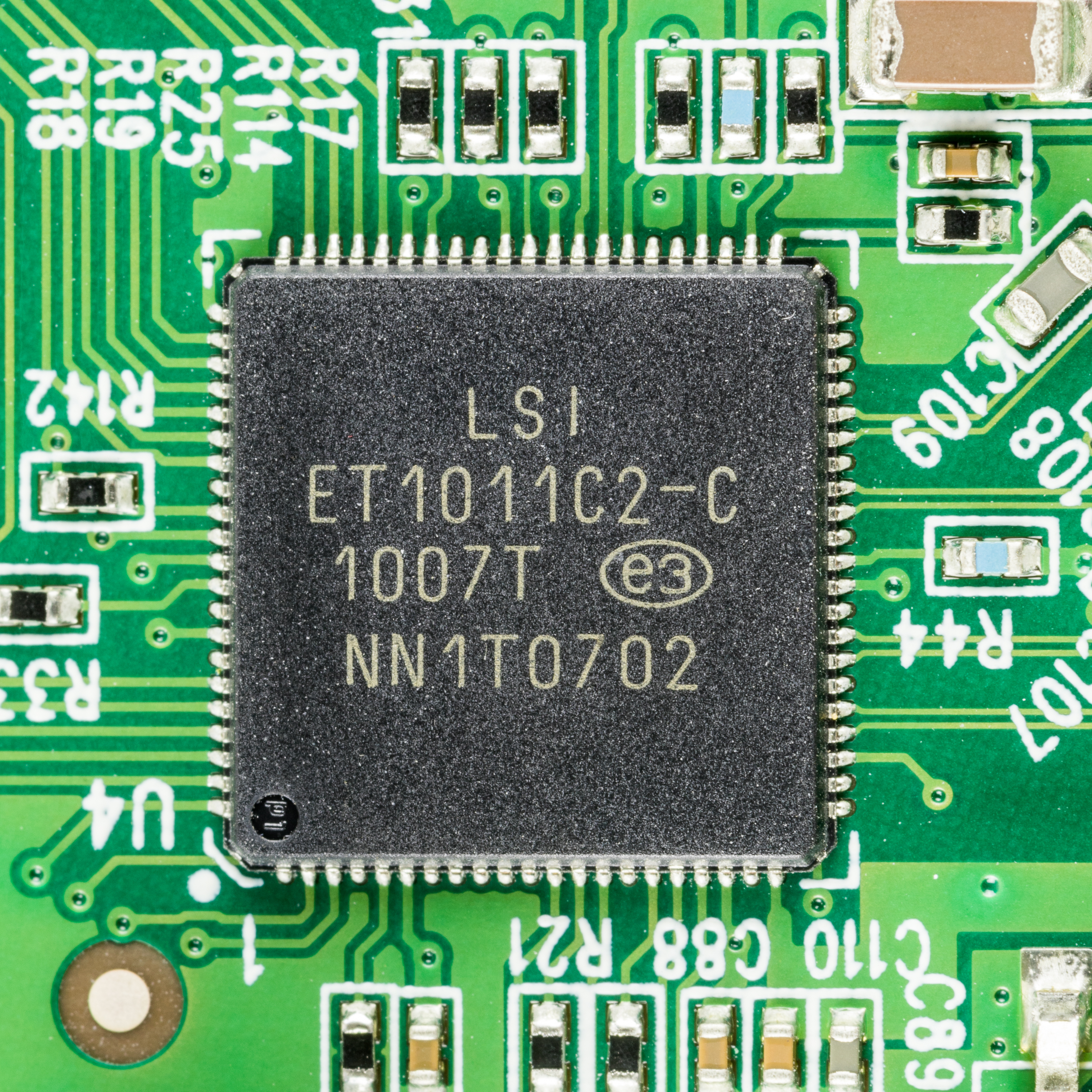 My Book World Edition (WD10000H1NC) - controller - LSI ET1011C2-C - TruePHY Gigabit Ethernet Transceiver. Package: 84-pin MLCC